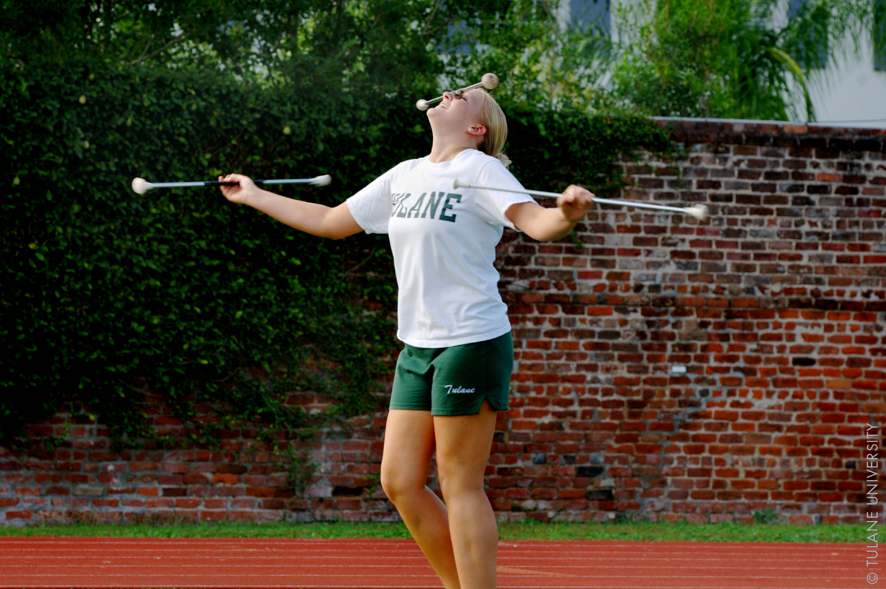 Baton twirling in practice.